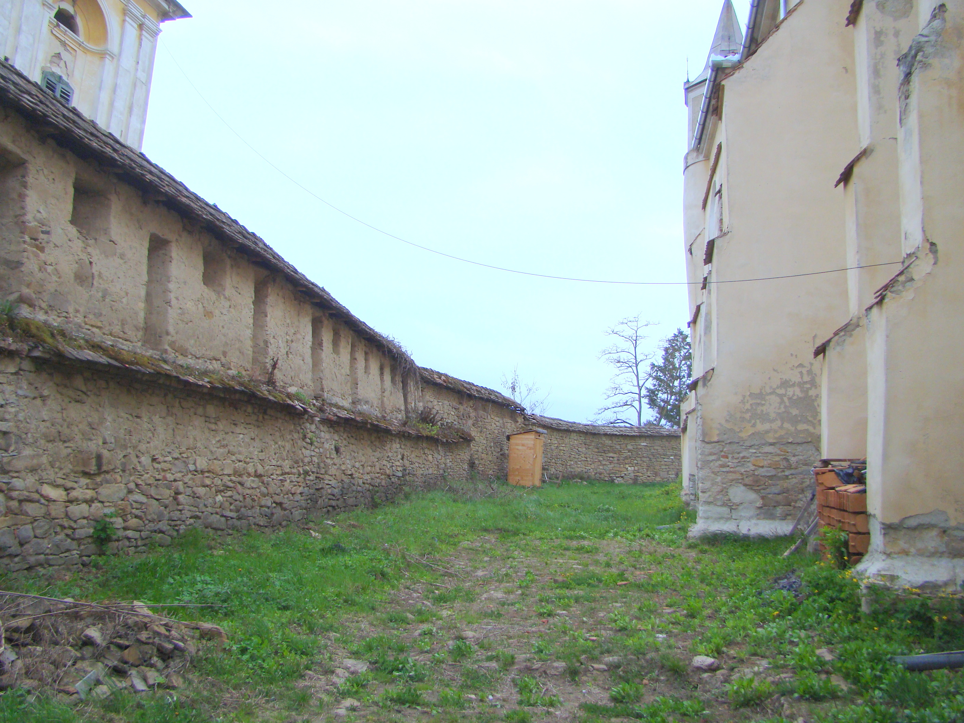 Lutheran church in Daia, Mureș county, Romania